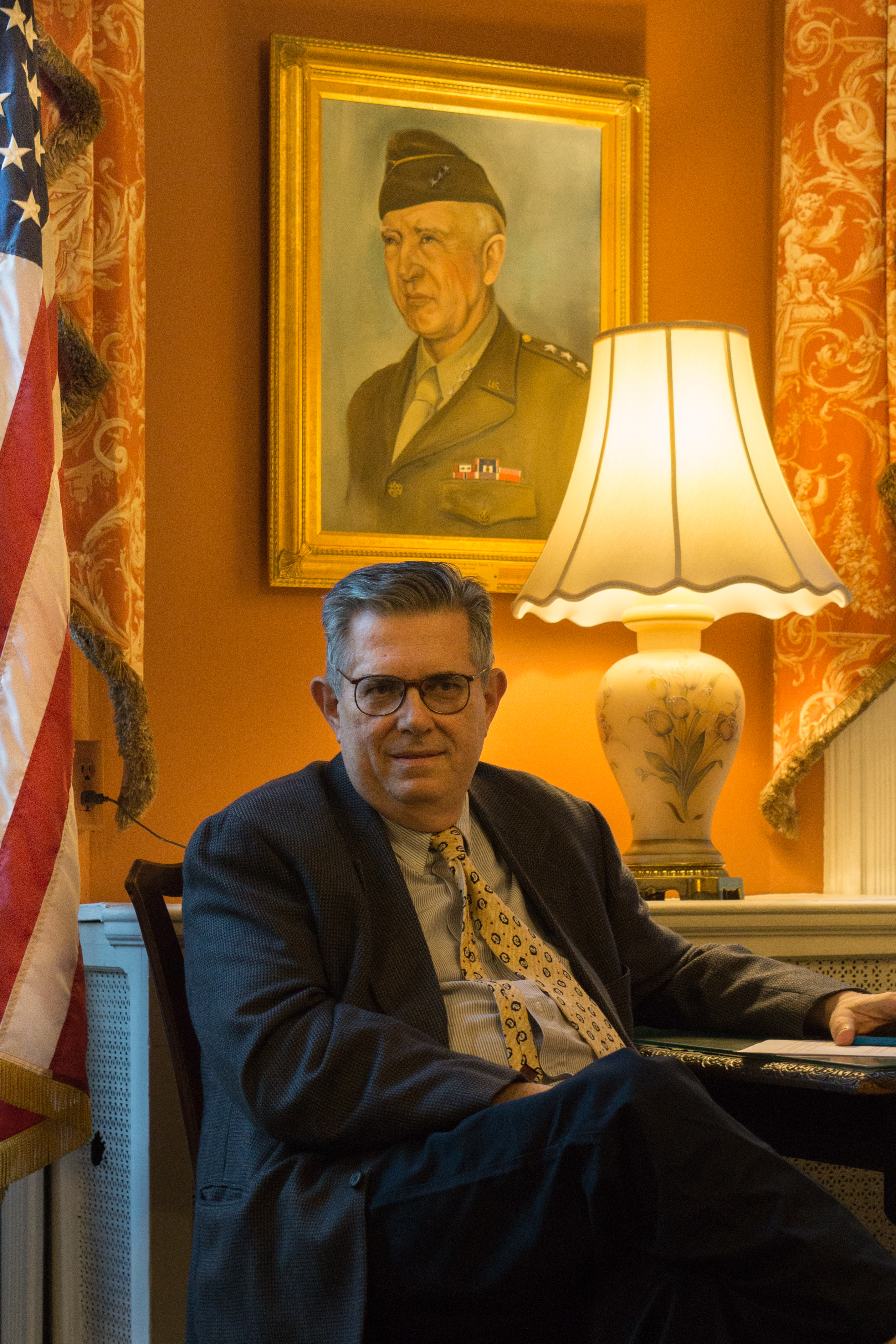 Robert Miller: Executive Director of New York Military Affairs Symposium